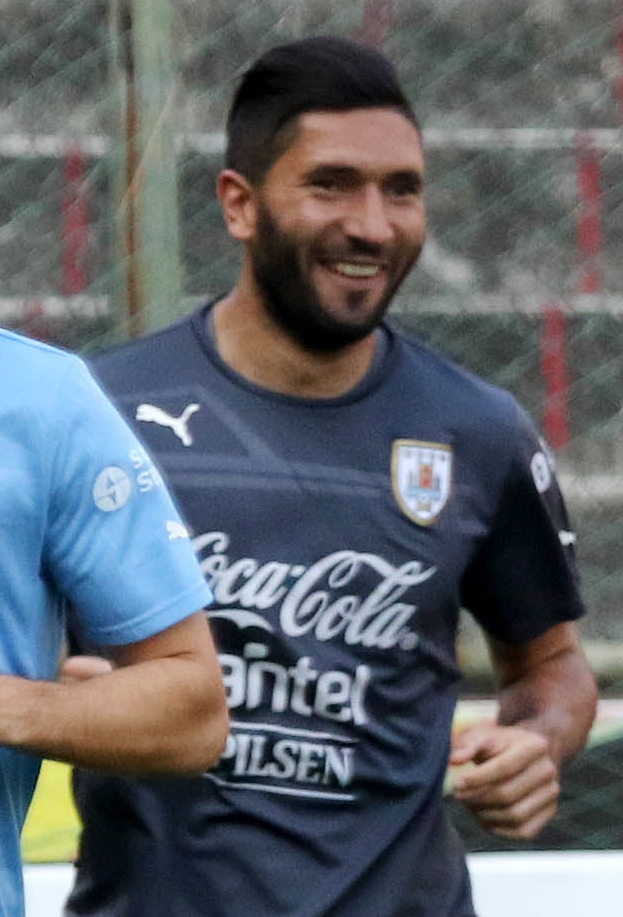 Guayaquil, 09 de nov. del 2015 (Andes).-El primer grupo de jugadores de la selección de Uruguay que llegó a Ecuador realizó una práctica en el estadio Monumental.Foto:César Muñoz/Andes Martín Campaña